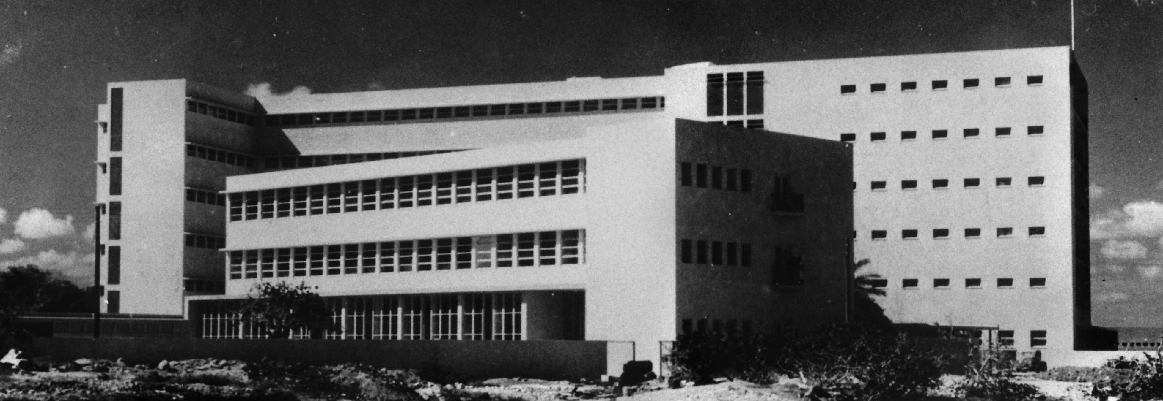 new government hospital upon its completion